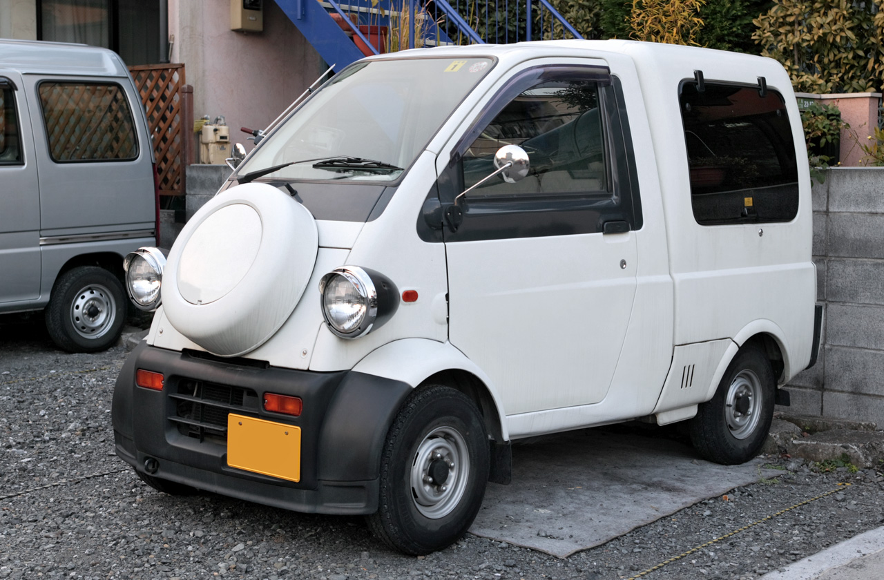 Daihatsu Midget II Cargo